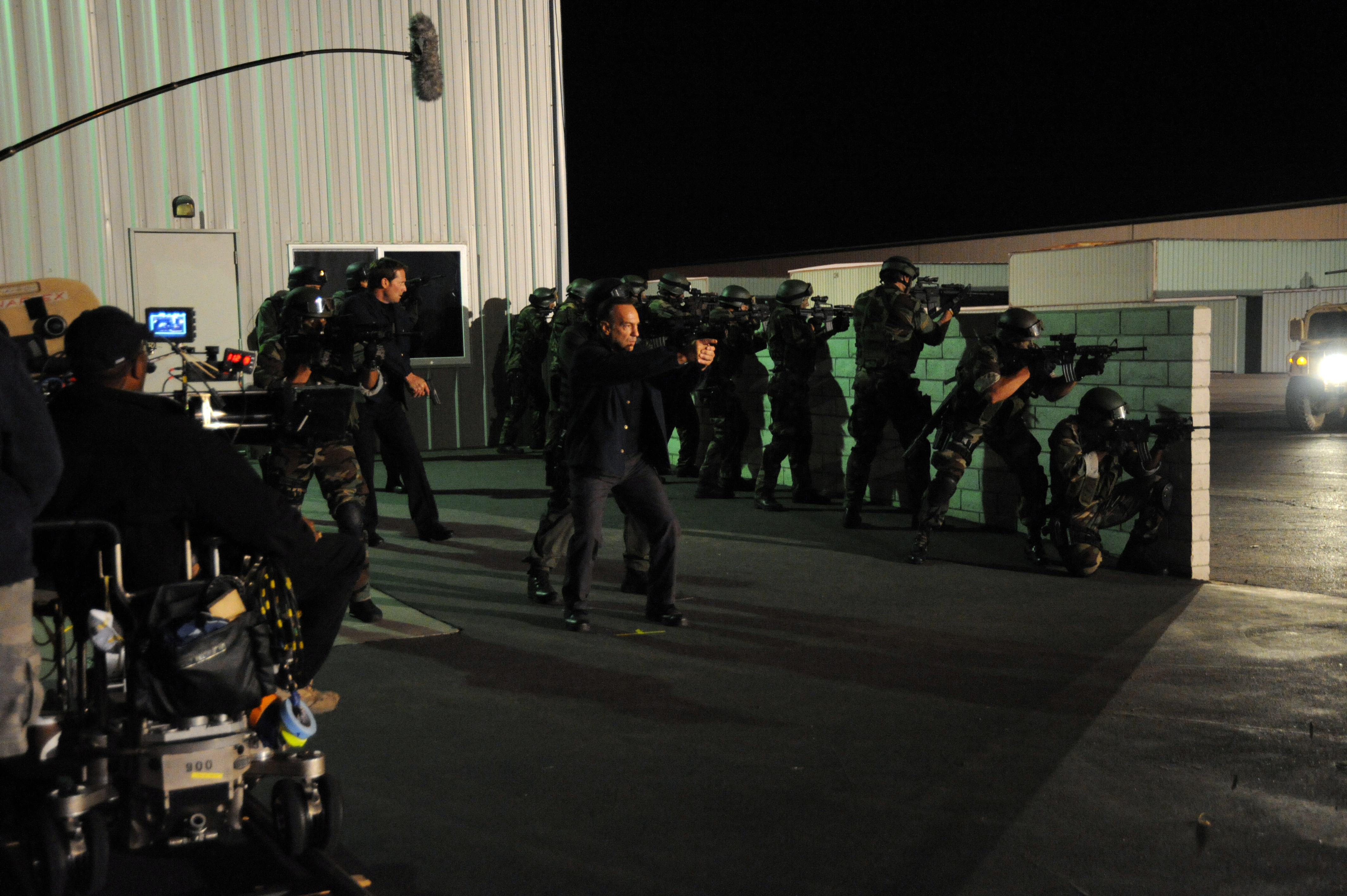 CAMARILLO, Calif. (Aug. 12, 2008) Thirteen West Coast-based Navy SEALs act in a scene for an upcoming episode of the Fox network television series "24" at Camarillo Airport. The show's producer requested participation from Naval Special Warfare Command to add realism to the scenes. The SEALs fast-roped from helicopters and assaulted a terrorist cell during the filming. The episode will air on Fox in January 2009. (U.S. Navy photo by Mass Communication Specialist 2nd Class Dominique M. Lasco/Released)